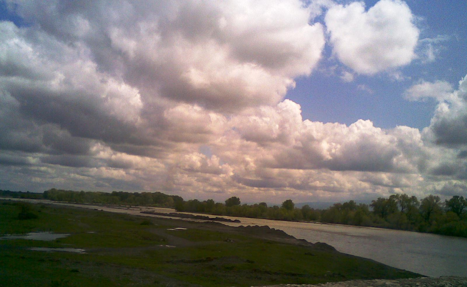 river Alazani